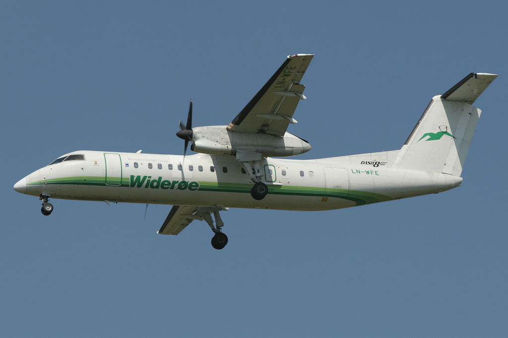 Widerøe De Havilland Canada DHC-8-311Q Dash 8 at Eindhoven Airport